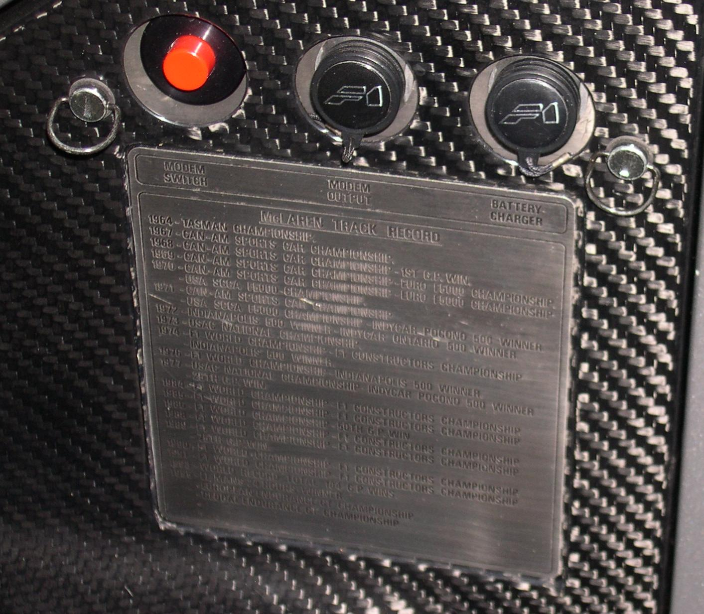 1996 McLaren F1 McLaren record plaque on left side in luggage area From the Ralph Lauren collection on display at the Boston Museum of Fine Arts. Photo taken in 2005. Source: Photo by User:Sfoskett